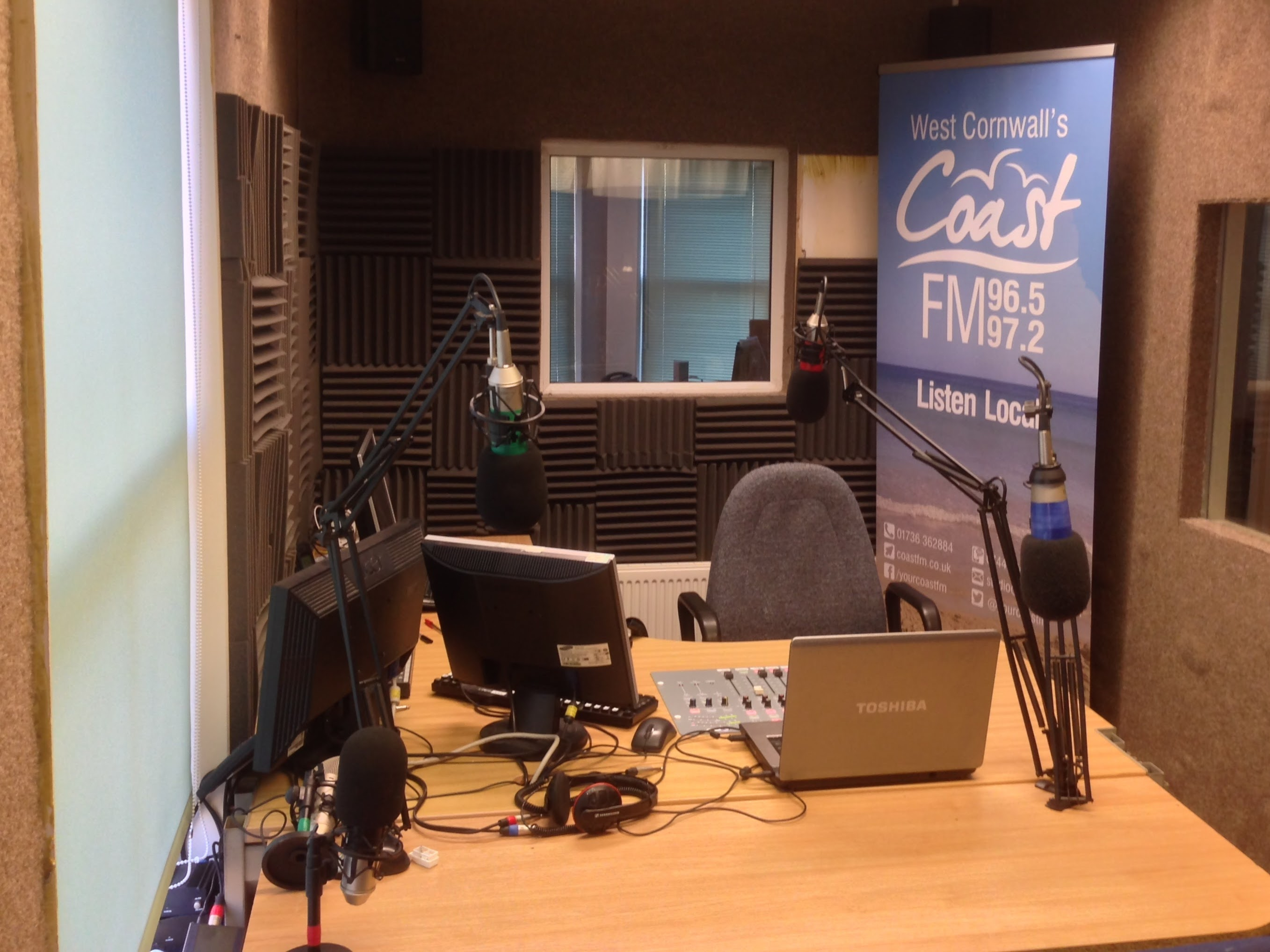 West Cornwall's Coast FM, Studio A at the Penwith Centre, Parade Street, Penzance.